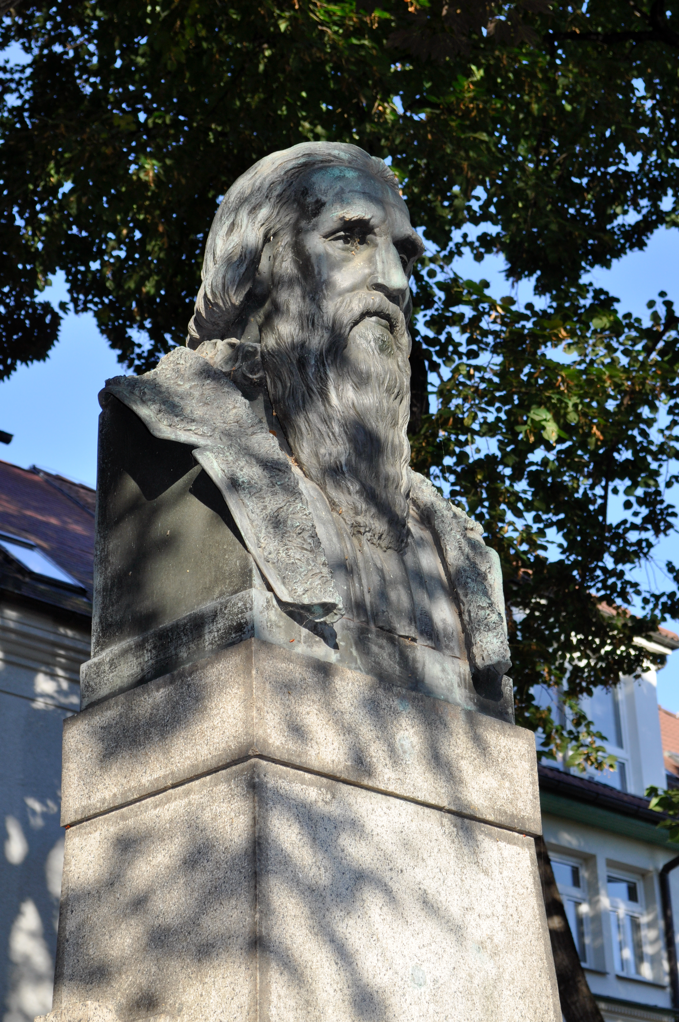 Daniel Adam from Veleslavín memorial, Veleslavín, Praha